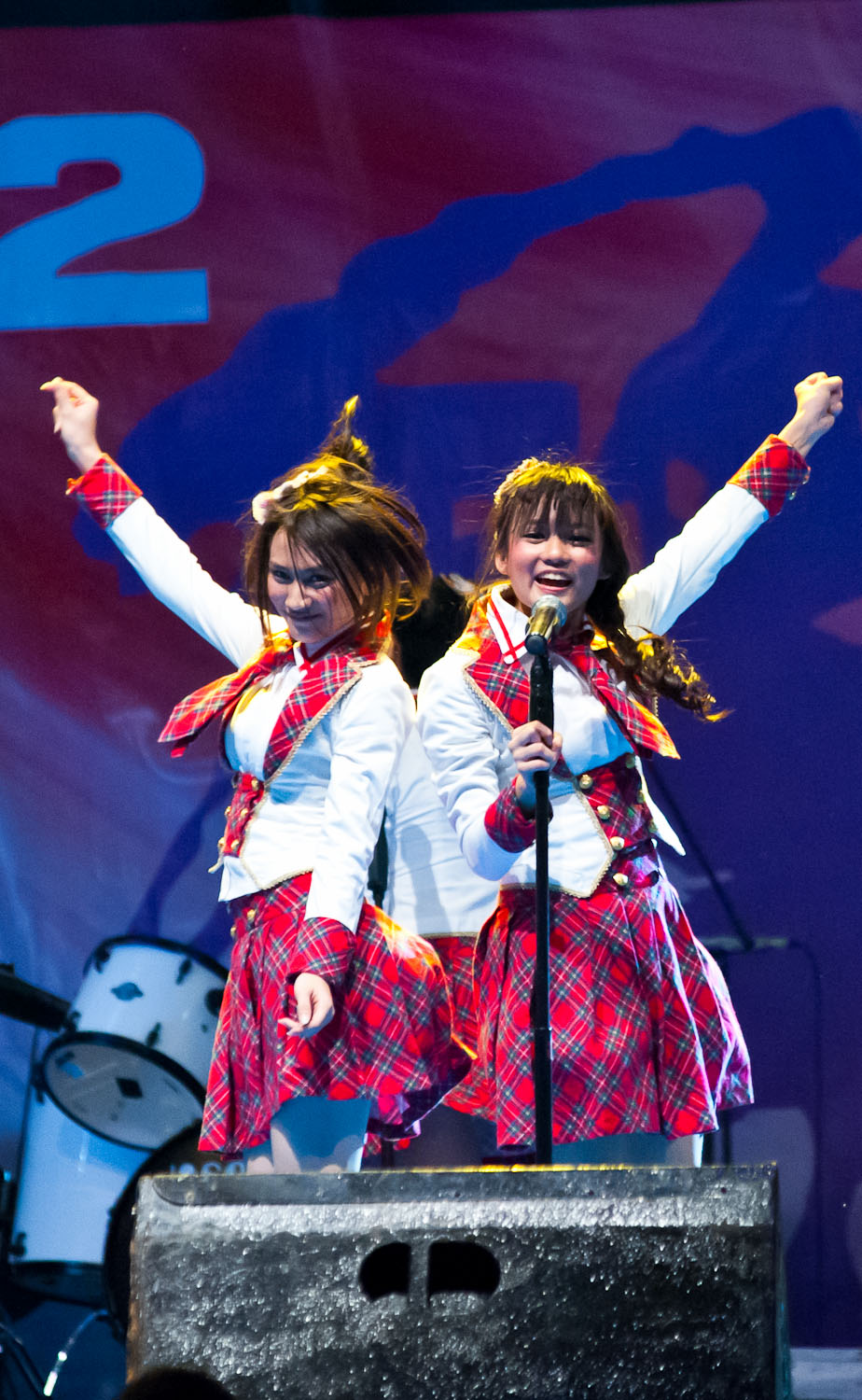 First generation JKT48 members Melody Nurramdhani Laksani and Stella Cornelia Winarto perform "Heavy Rotation" at Jak–Japan Matsuri 2012.